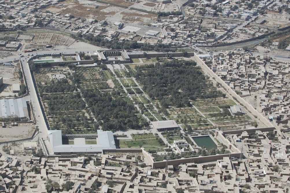 In honor of the Mughul Emperor Babur, these gardens house his tomb as well as some interesting architecture and some cool little woodworking and carpet shops.